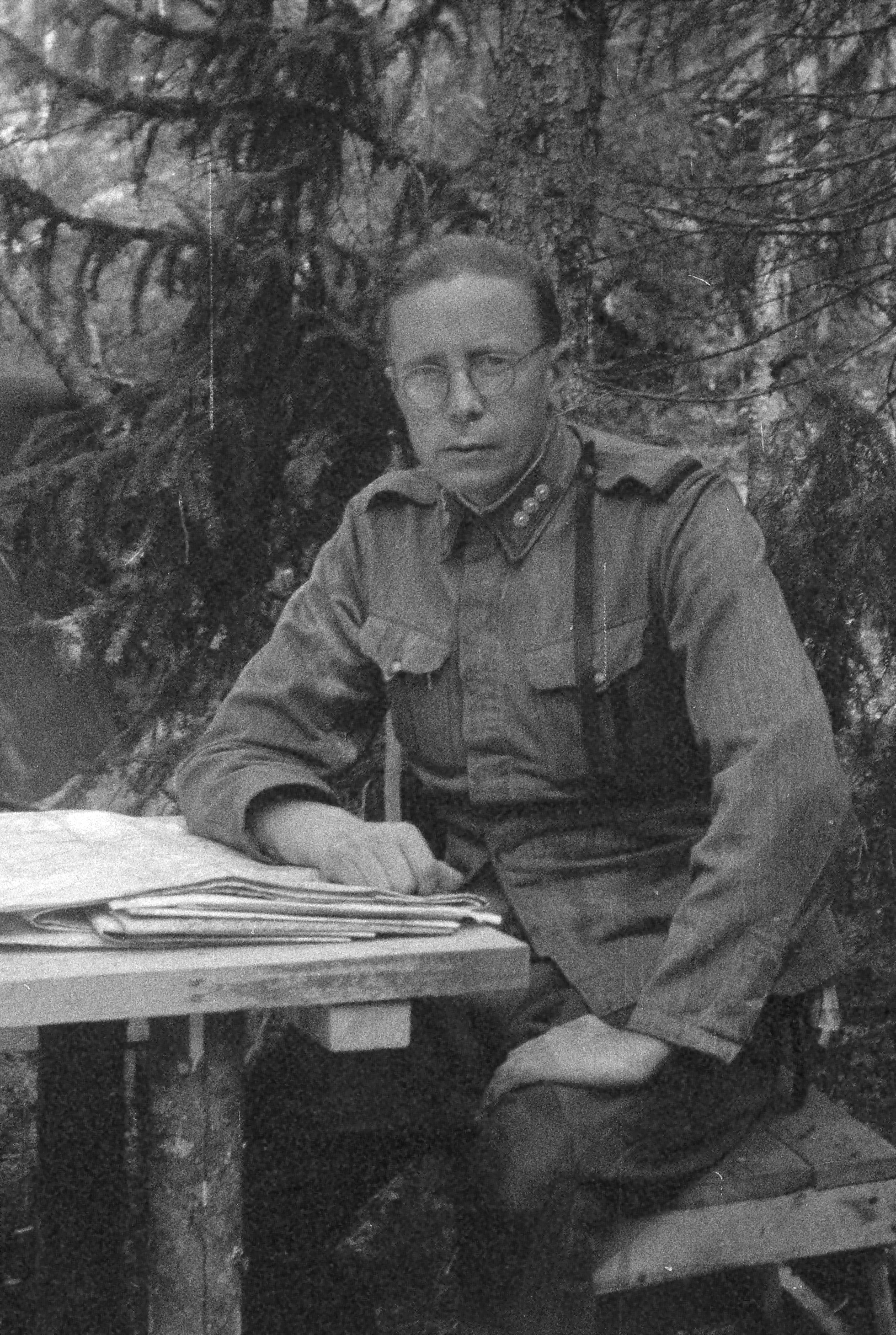 Colonel Jaakko Sakari Simelius during the Continuation War 1944. Simelius later became General of Infantry and the Finnish Chief of Defence.